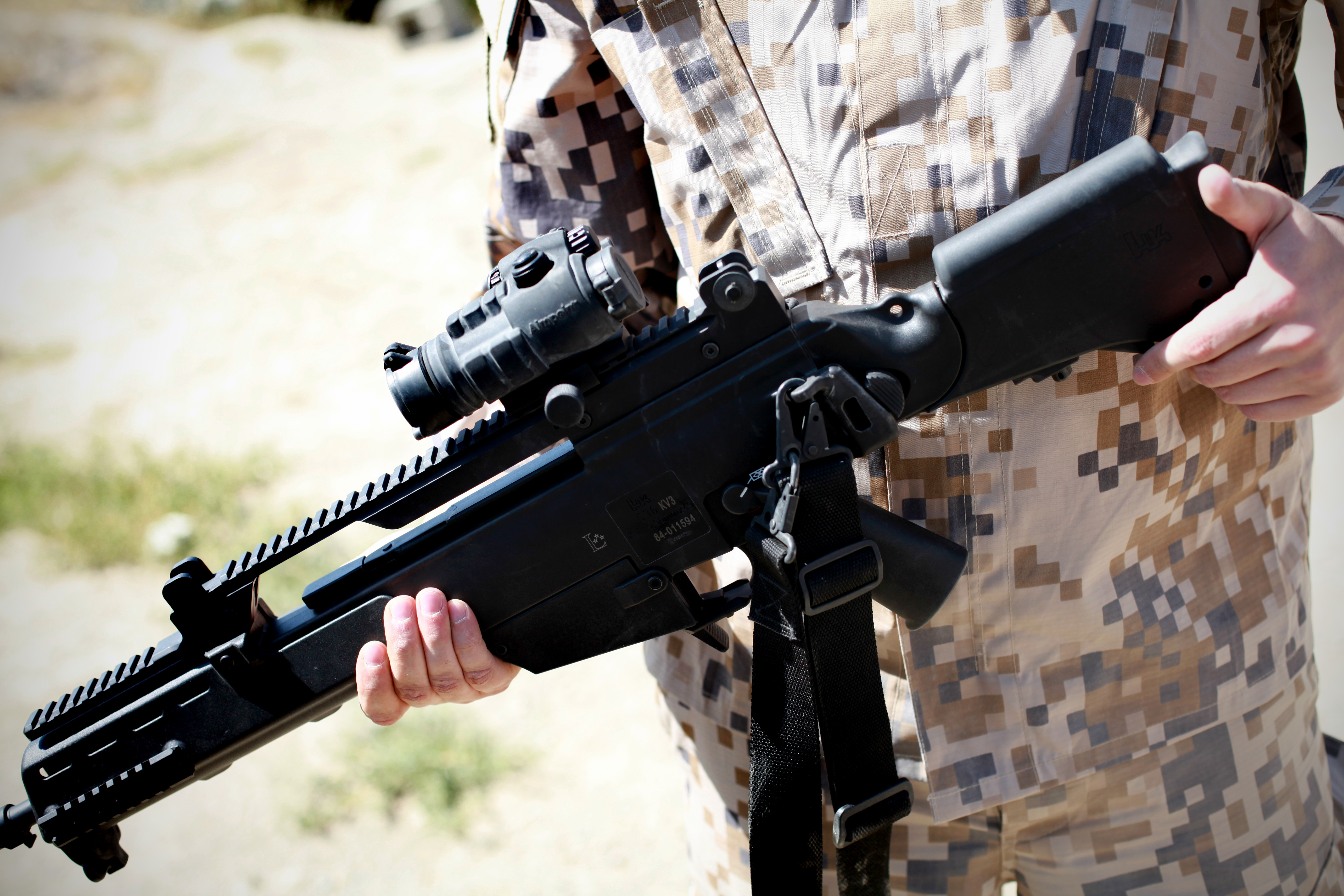 A Coalition Soldier, from Latvija, demonstrates the Heckler and Koch G36 rifle, after shooting with it, on the range, at Camp Julian, in Kabul, Afghanistan, July 27, 2009.